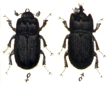 Sinodendron cylindricum male and female, from Calwer's Käferbuch, Table 22, Picture 25. Taxonomy was updated to 2008, using mostly the sites Fauna Europaea and BioLib. Please contact Sarefo if the determination is wrong!